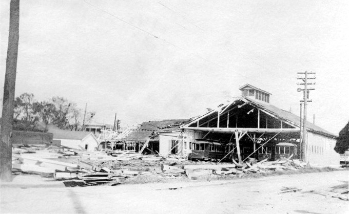 New Orleans after the Great Hurricane of 1915. The Poland Station streetcar barn (at Uptown river corner of Poland & St. Claude Avenues), shown with significant damage.